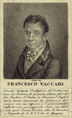 Portrait of Francesco Vaccari, composer (1775-1824), before 1840.